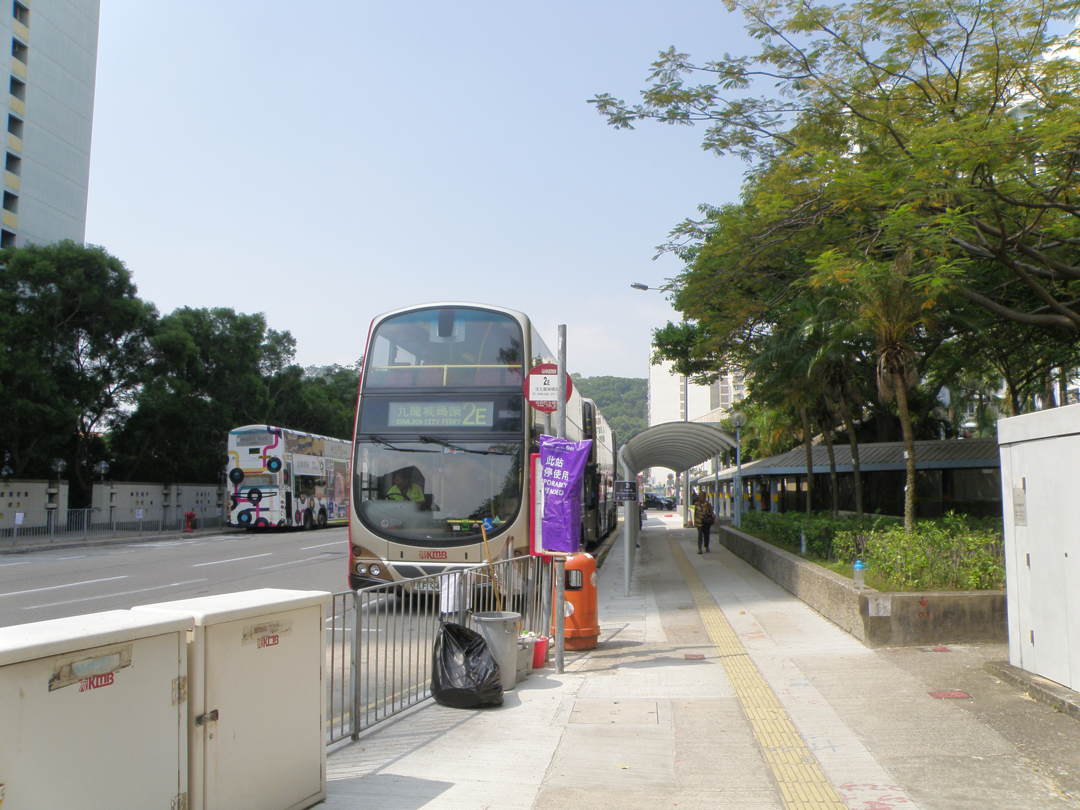 Pak Tin Temporary Bus Terminus in Shek Kip Mei, Hong Kong.